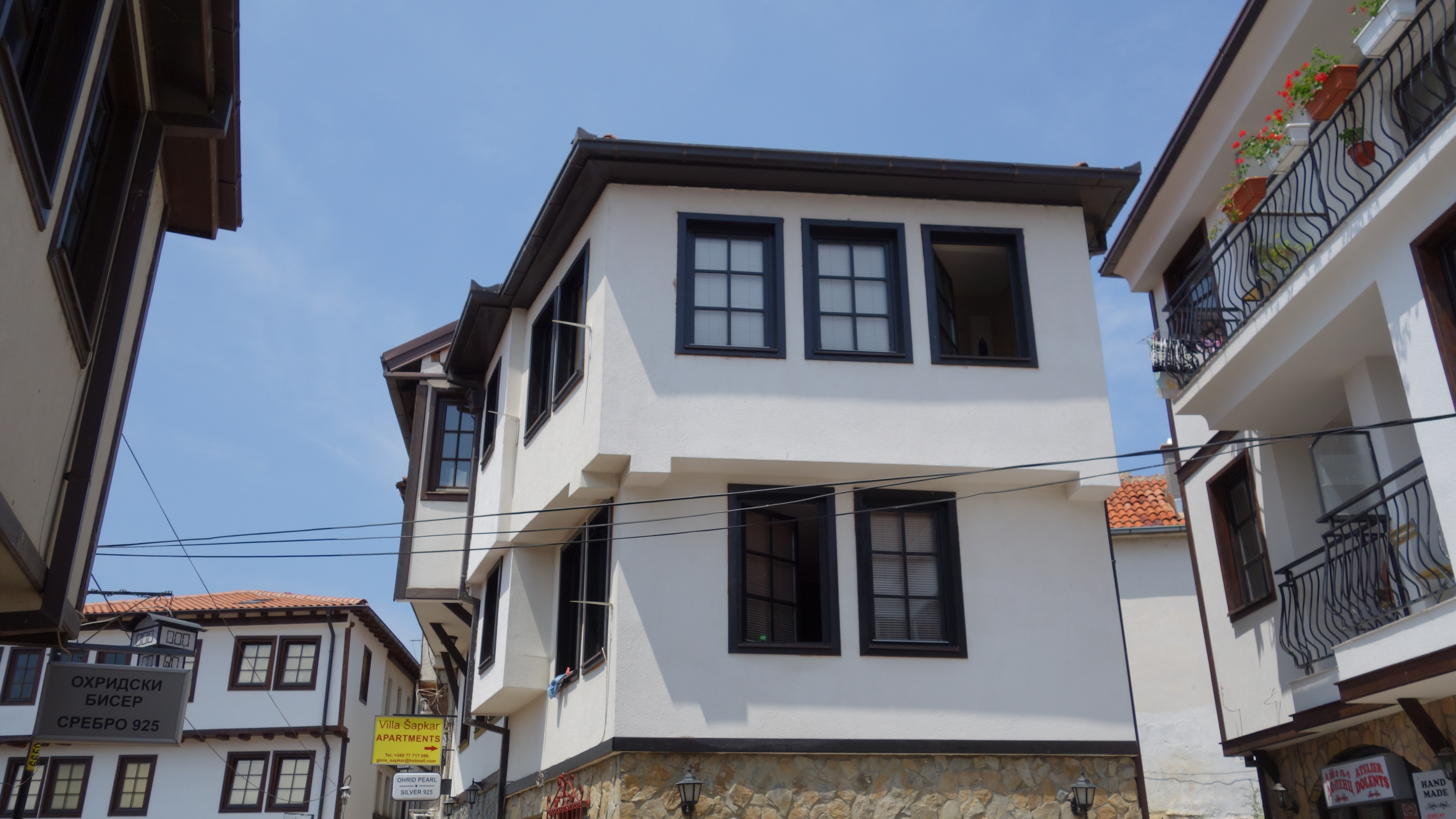 Ohrid, summer 2016, Macedonia